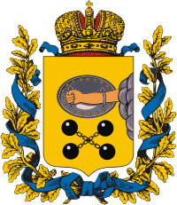 Olonets gubernia (Russian empire), coat of arms